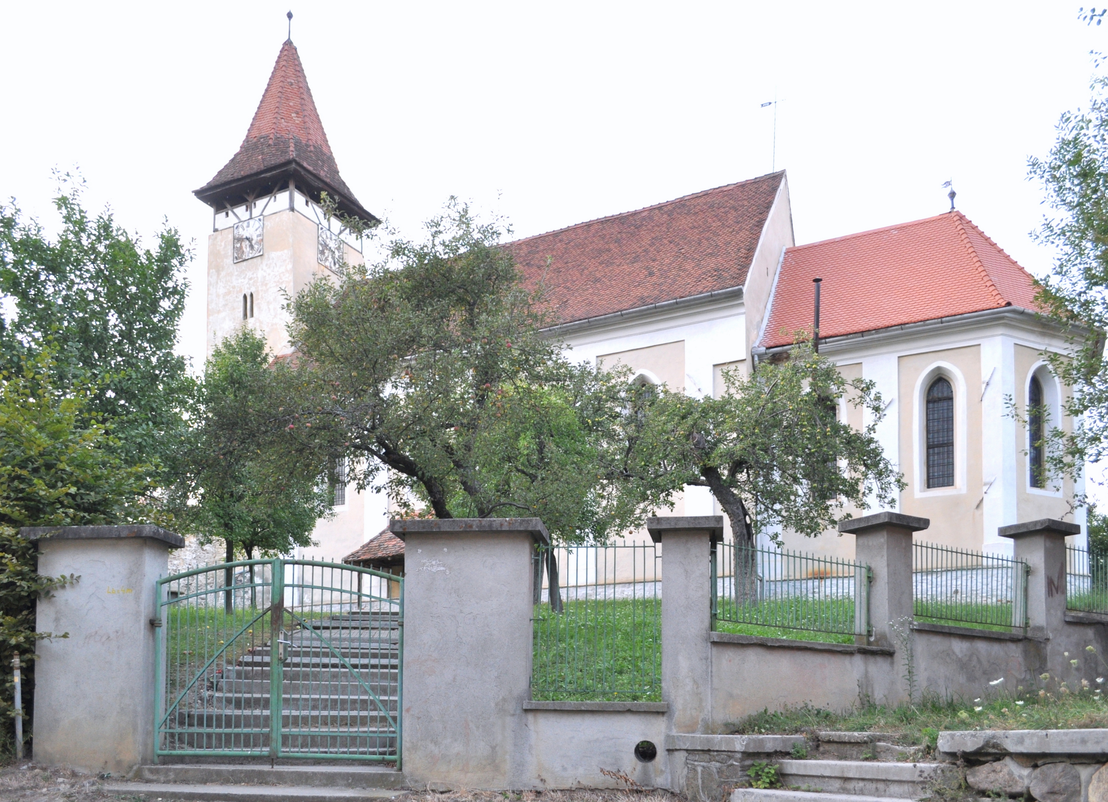 Lutheran church in Cisnădioara, Sibiu countyRomână: Biserica evanghelică din Cisnădioara, județul Sibiu